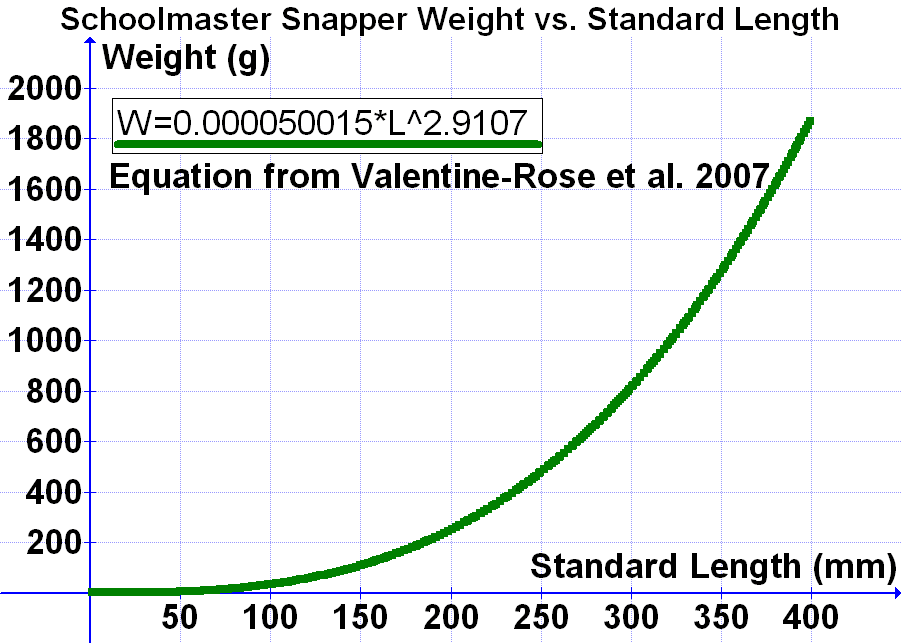 This graph is based on an equation reported in the following reference: Valentine-Rose L, Layman CA, Arrington DA, Rypel AL. Habitat fragmentation decreases fish secondary production in Bahamian tidal creeks.Bulletin of Marine Science 80(3):863-877, 2007